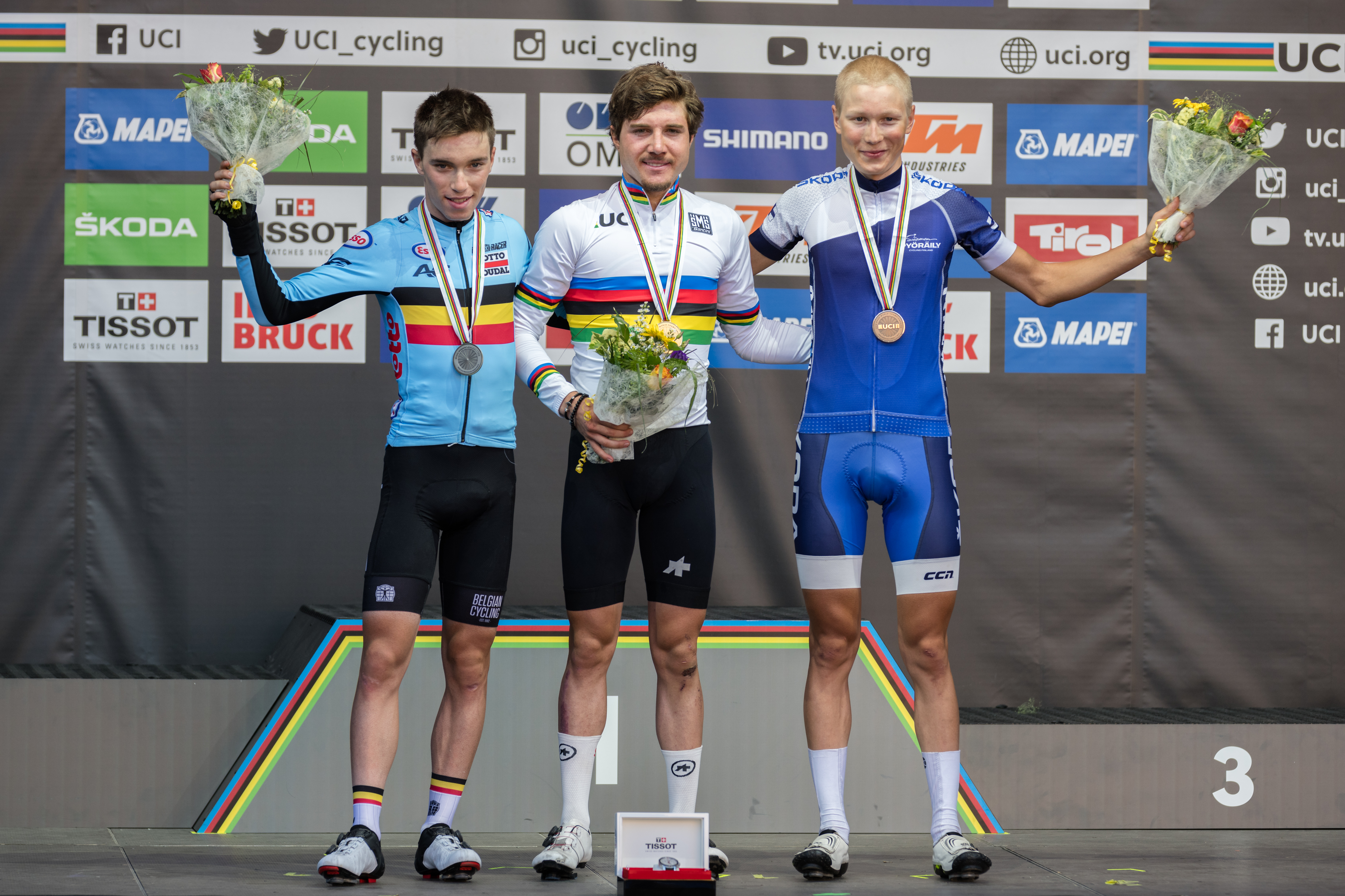 2018 UCI Road World Championships Innsbruck/Tirol Men under 23 Road Racel. Picture shows: Award Ceremony with Bjorg Lambrecht of Belgium, winner Marc Hirschi of Switzerland and Jaakko Hanninen of Finland